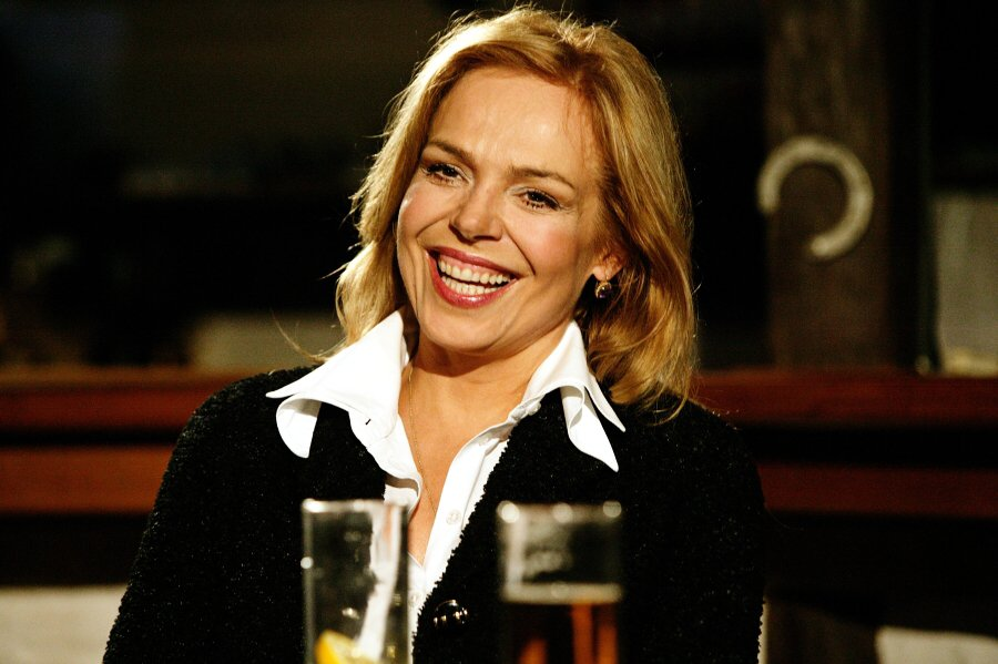 portrait of Dagmar Havlova Veskrnova